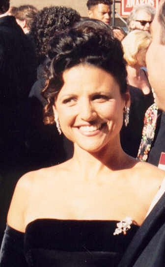 Photo of Julia Louis-Dreyfus at the Emmy Awards.